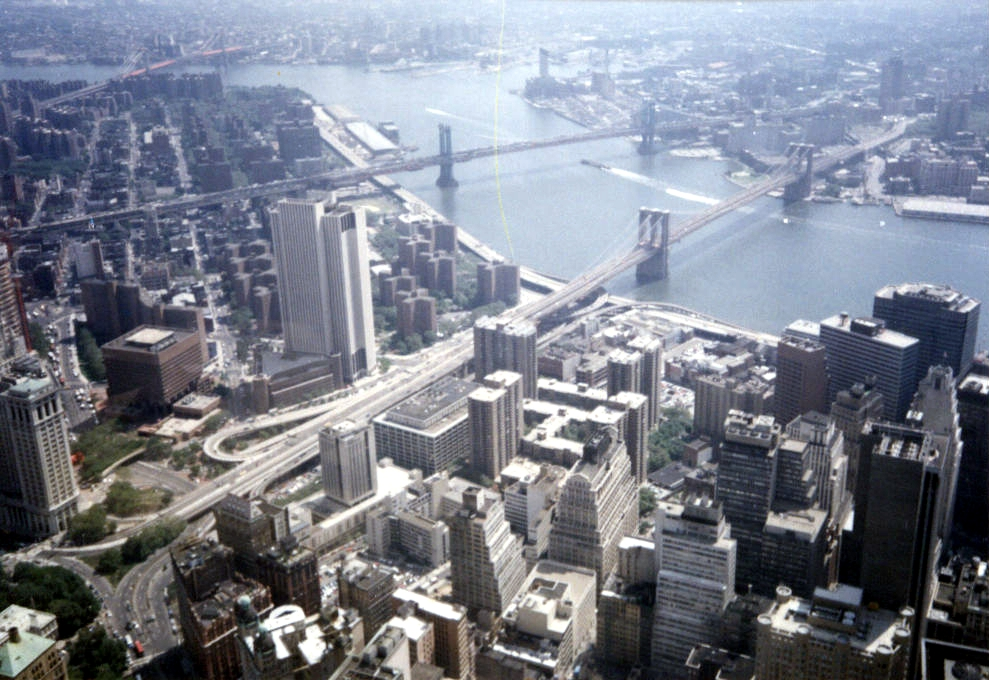 The East River, as seen from the World Trade Center in August 1992.